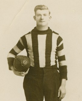 Photograph of Leo Wescott in1923